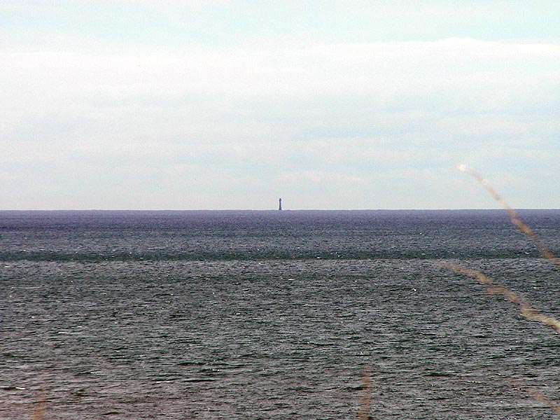 Bellrock lighthouse from Auchmithie